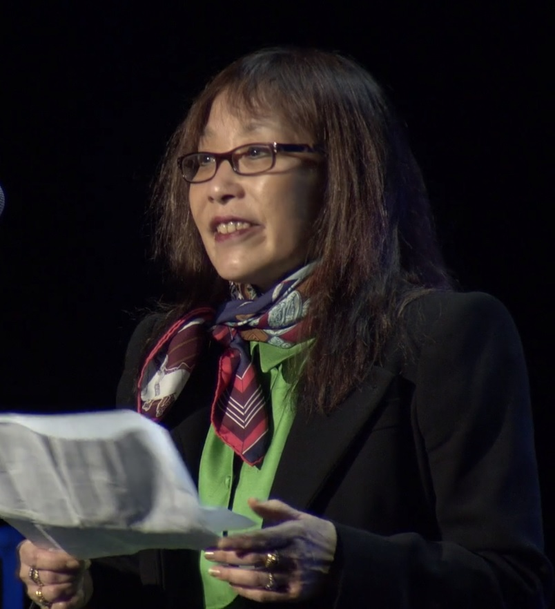 Author and literary critic Michiko Kakutani speaking after receiving a Tribeca Disruptive Innovation award in 2018.